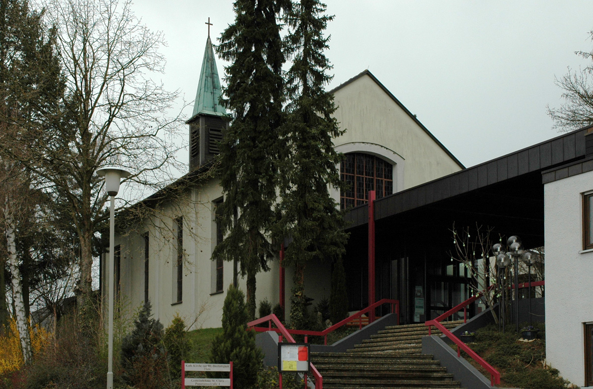 catholic Dreifaltigkeitskirche in Flein.